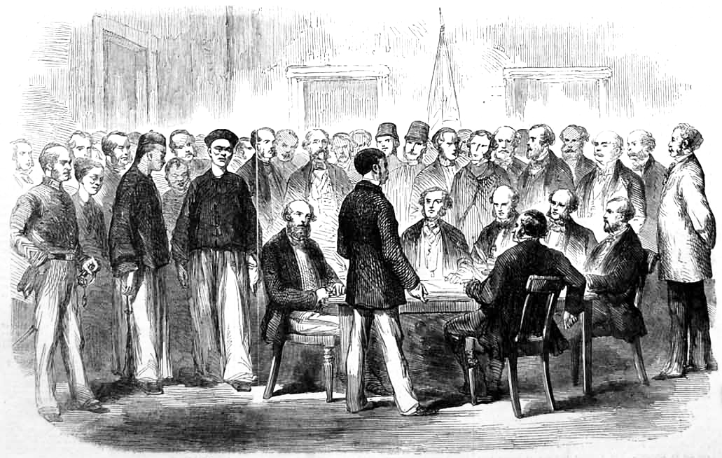 Esing Bakery Incident